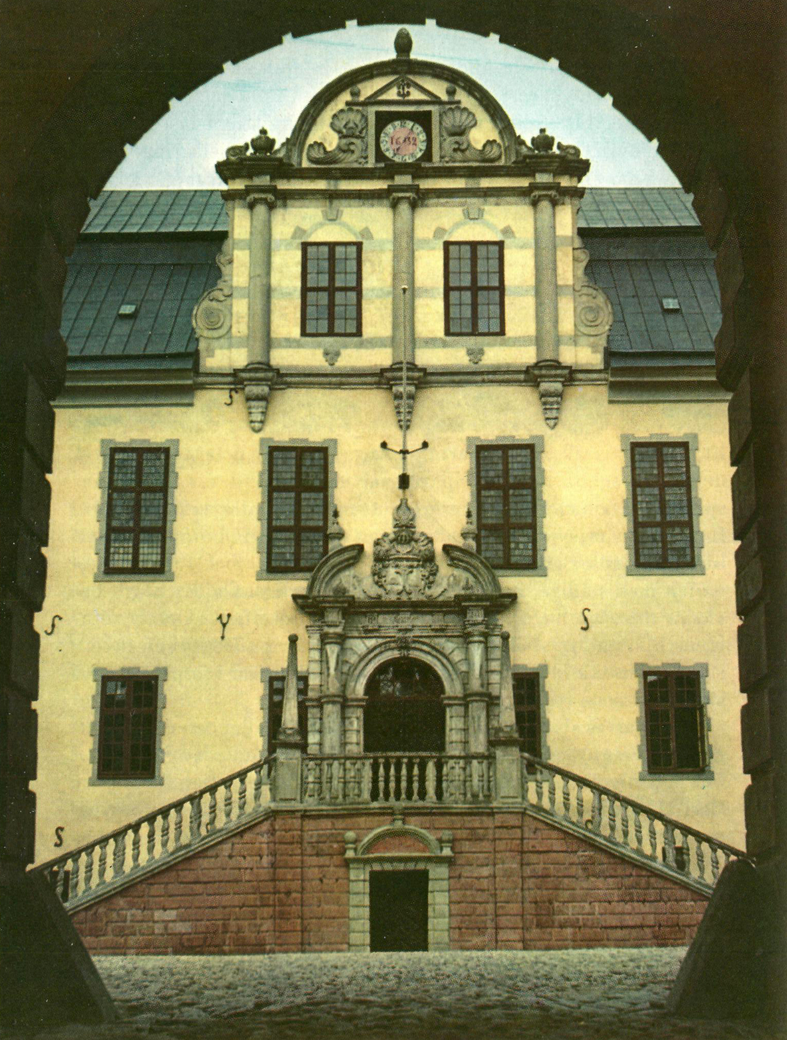 Tidö castle in Sweden.